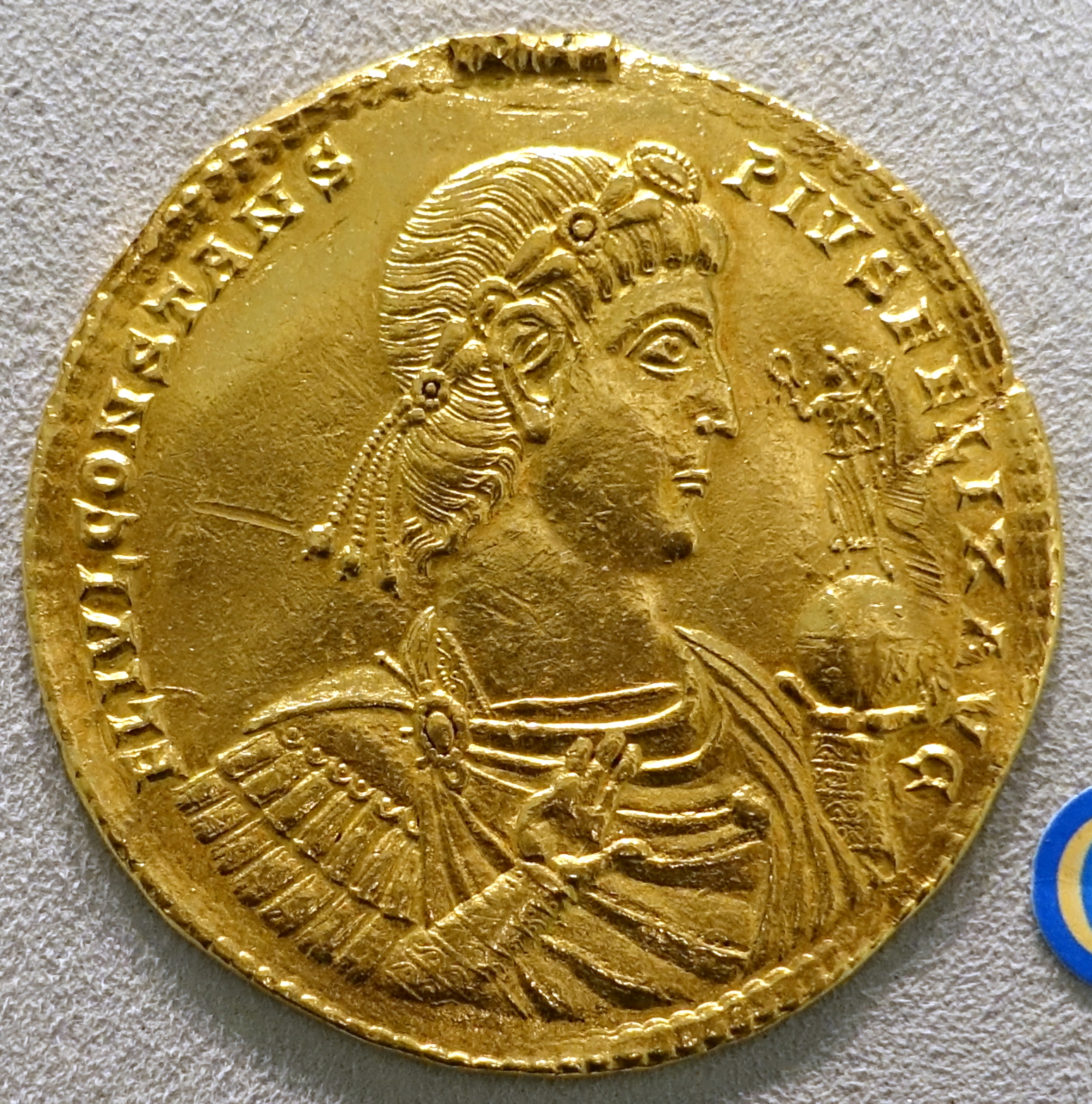 Exhibit in the Bode-Museum, Berlin, Germany. This work is in the public domain because the artist died more than 100 years ago.